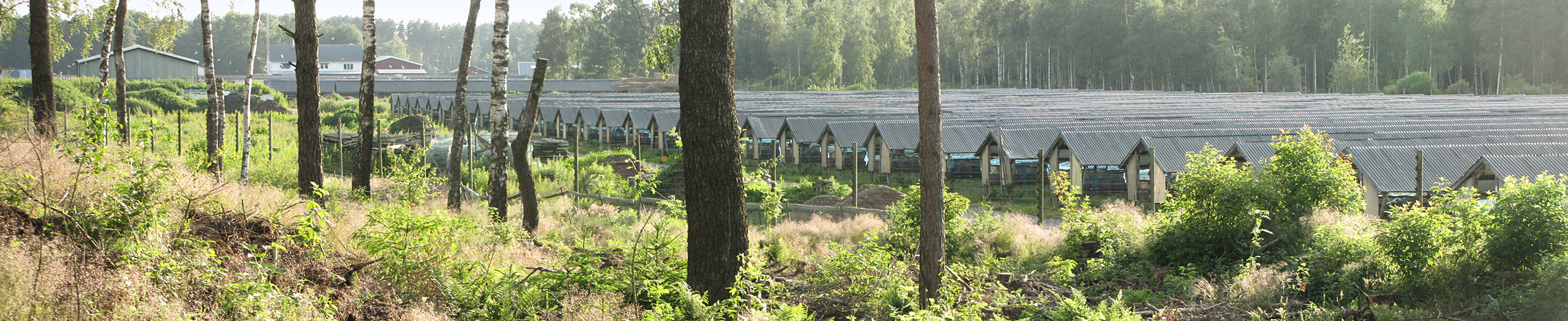 Mink farm in Sweden